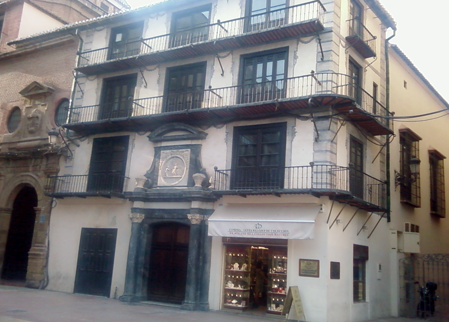 Former Consulate's House Building, Málaga, Spain.